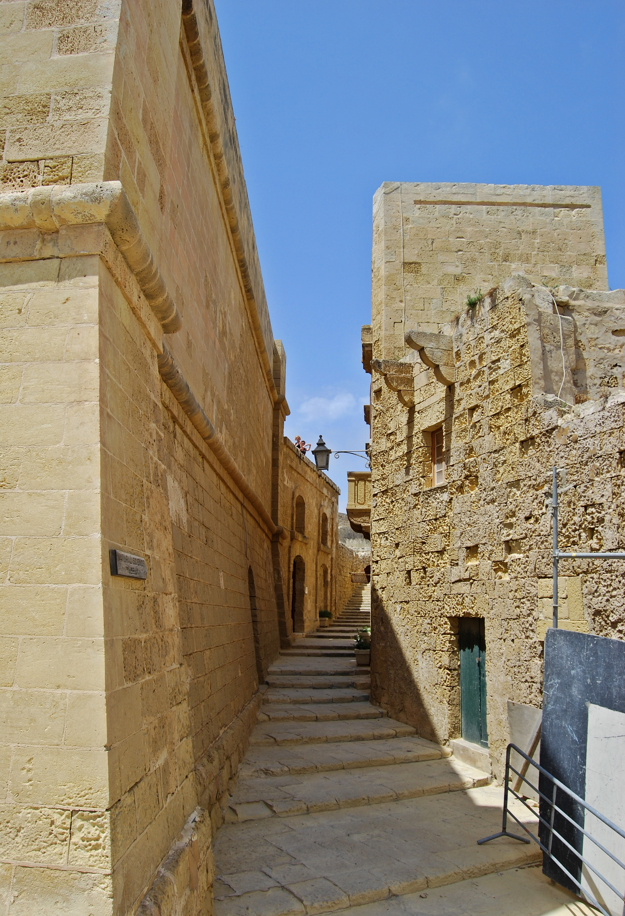 Narrow street in Victoria, Gozo, Malta.